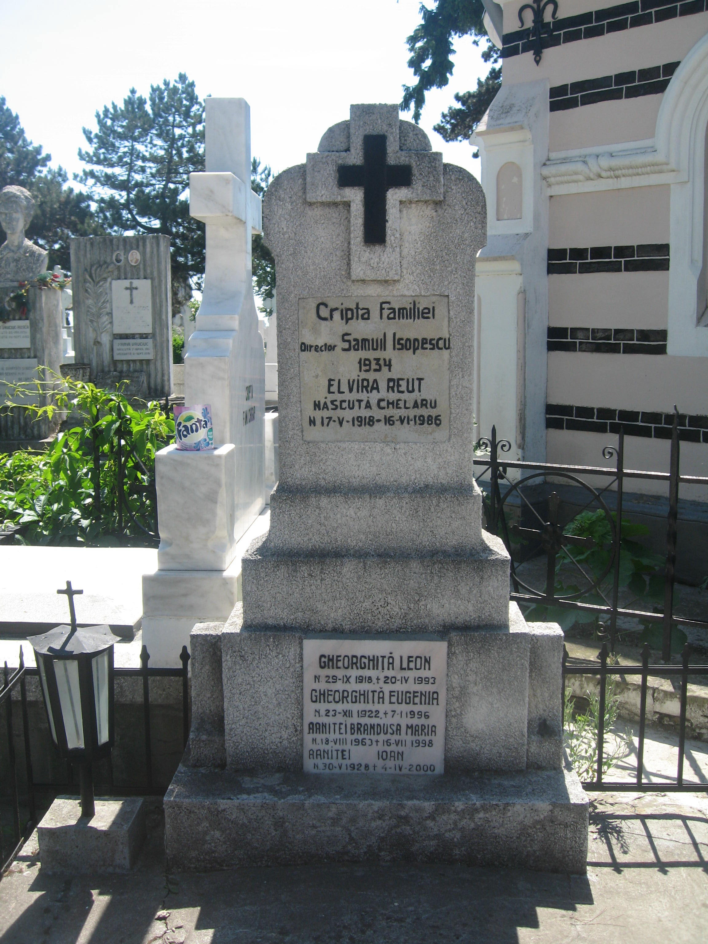 Pacea Cemetery in Suceava - Tomb of Samuil Isopescu.